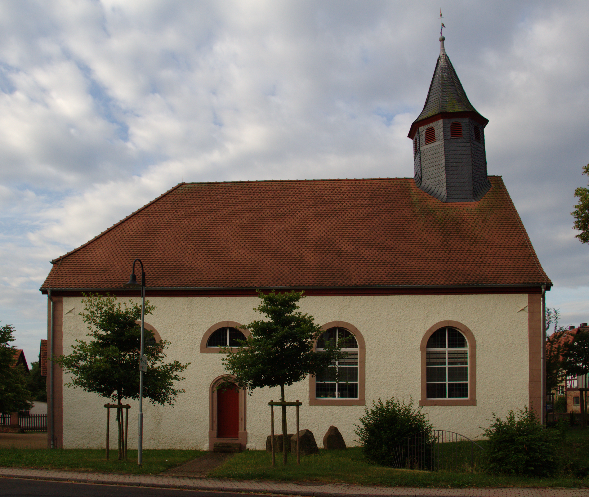 Protestant church in Schlitz Rimbach / Hesse / Germany